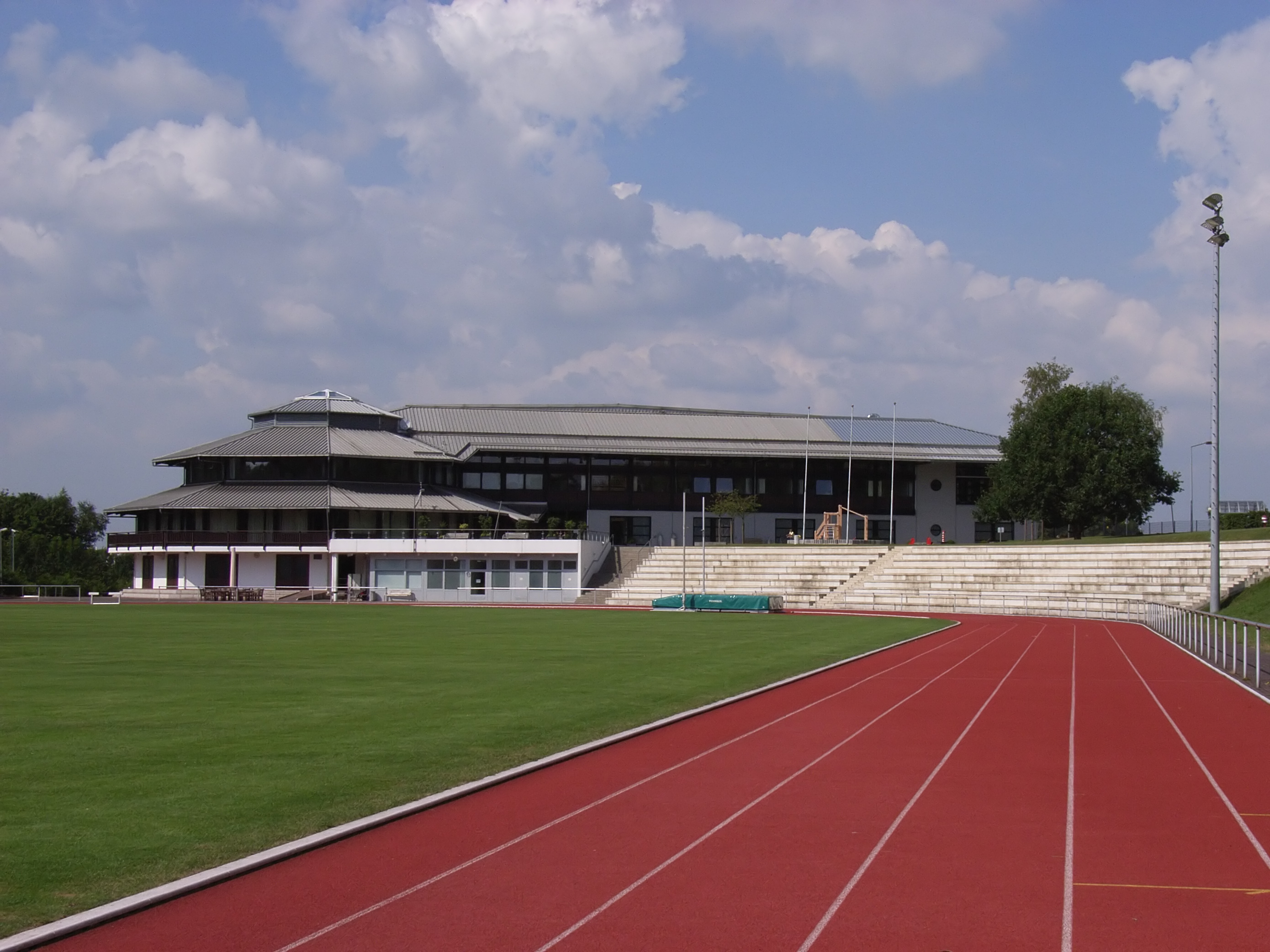 Paderborn, Germany: Ahorn-Sportpark (“maple sports park”).